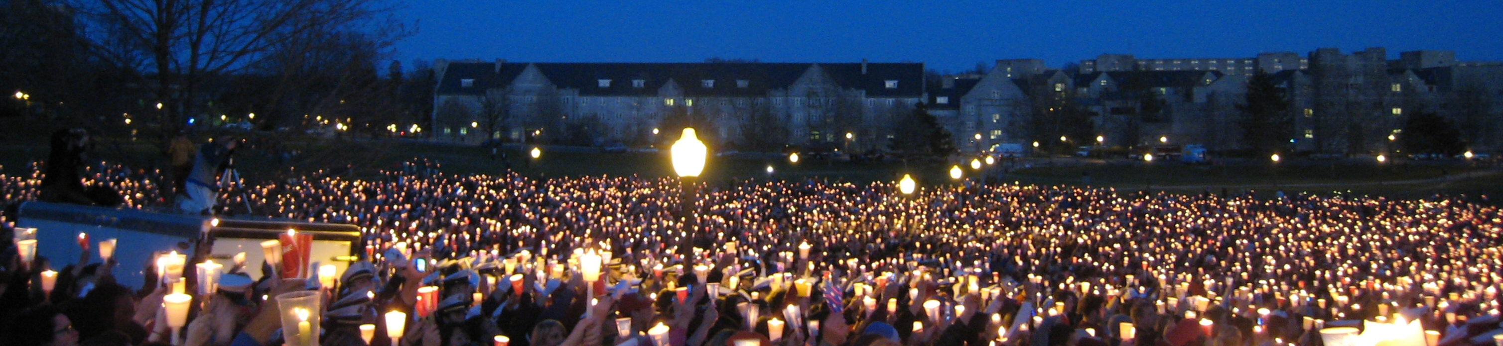 Students at Virginia Tech hold a candlelight vigil after the Virginia Tech massacre